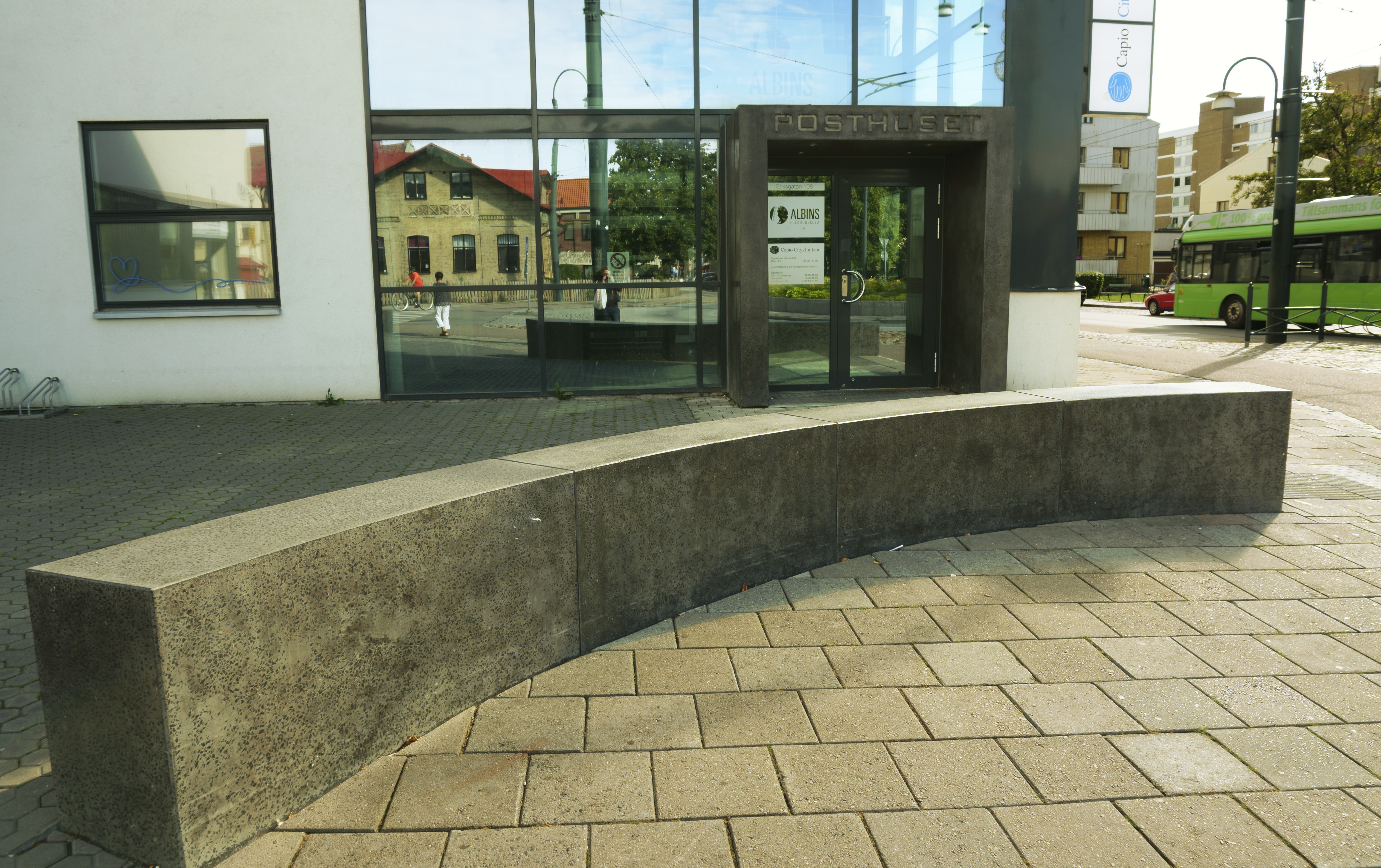 Picture taken on 2018-08-14.